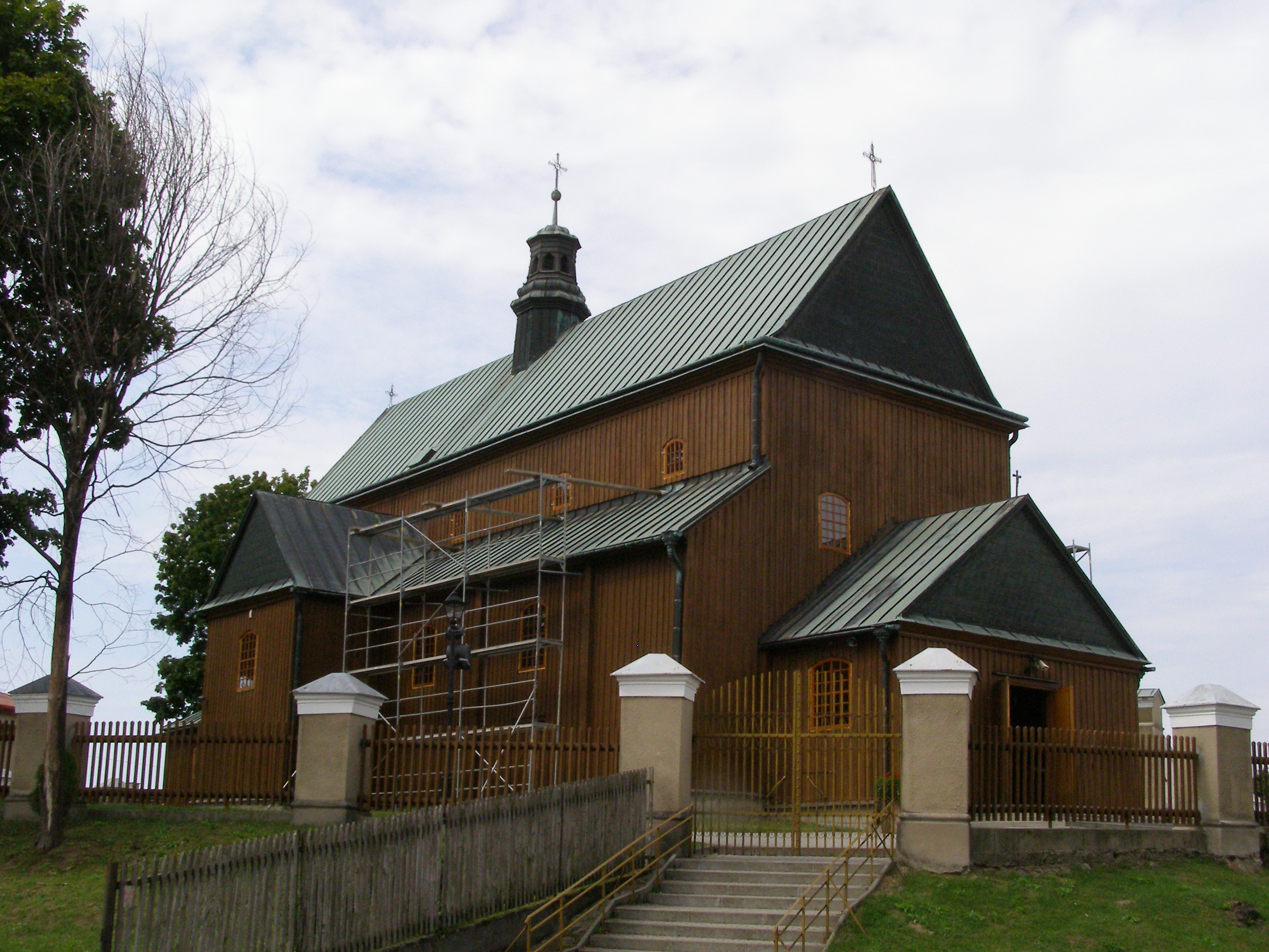 All Saints Church in Dąbrowa Tarnowska